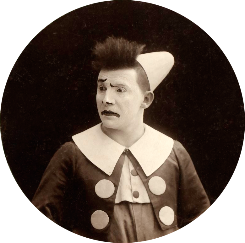 Photograph of French clown George Footit.